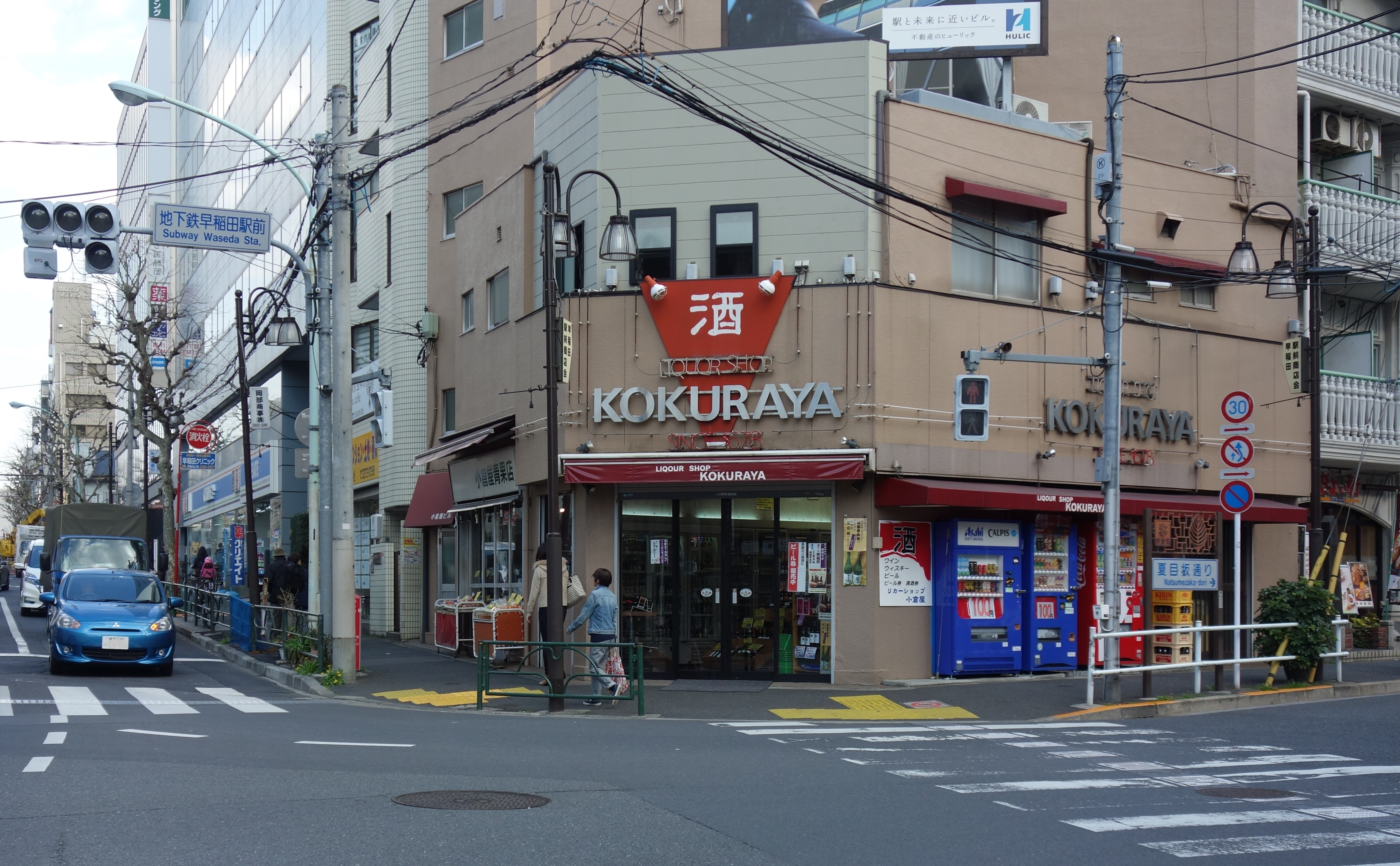 "Liquor Shop Kokuraya" is a Liquor Store in Waseda,Tokyo,Japan. It established in 1678.